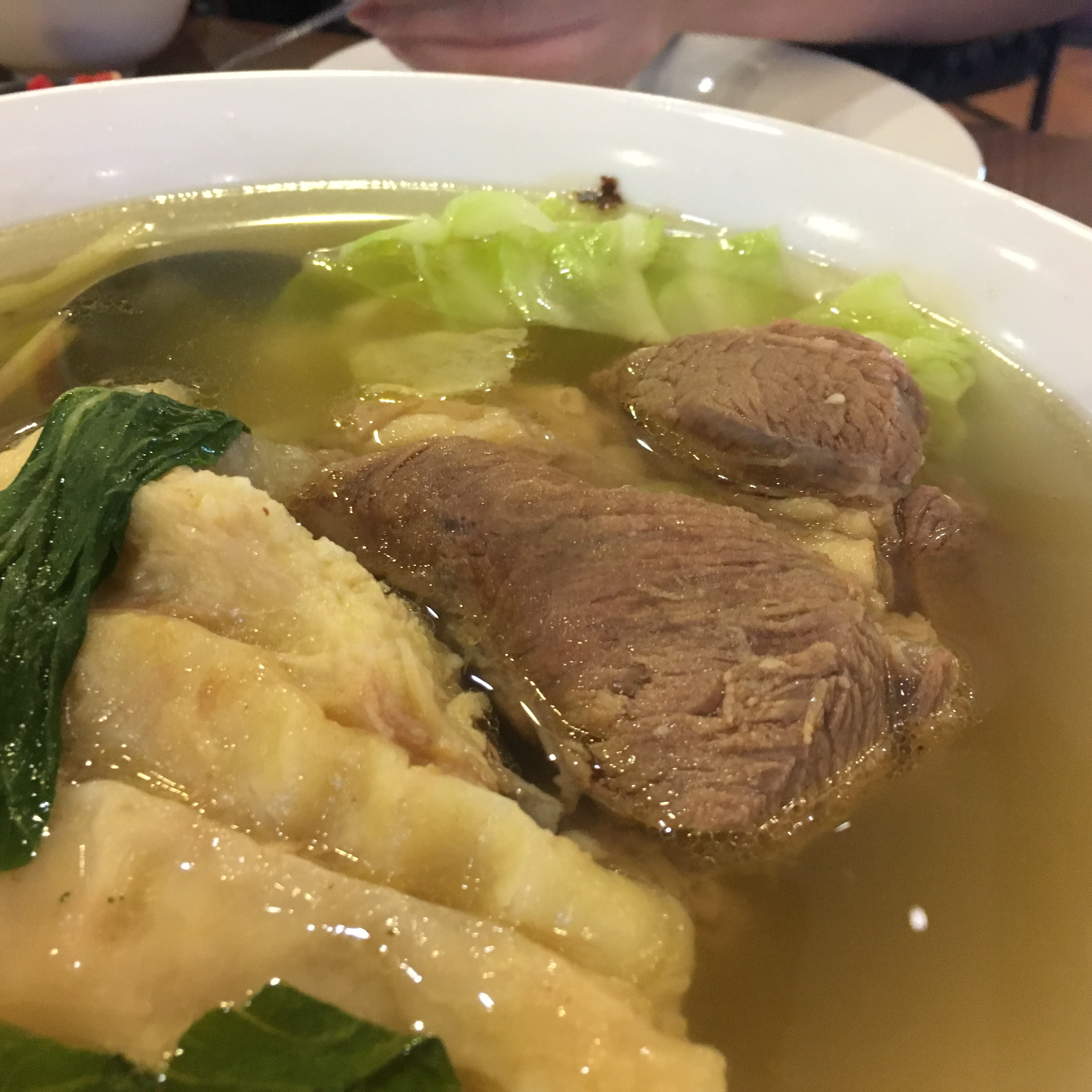 Bulalo (Philippine beef broth).